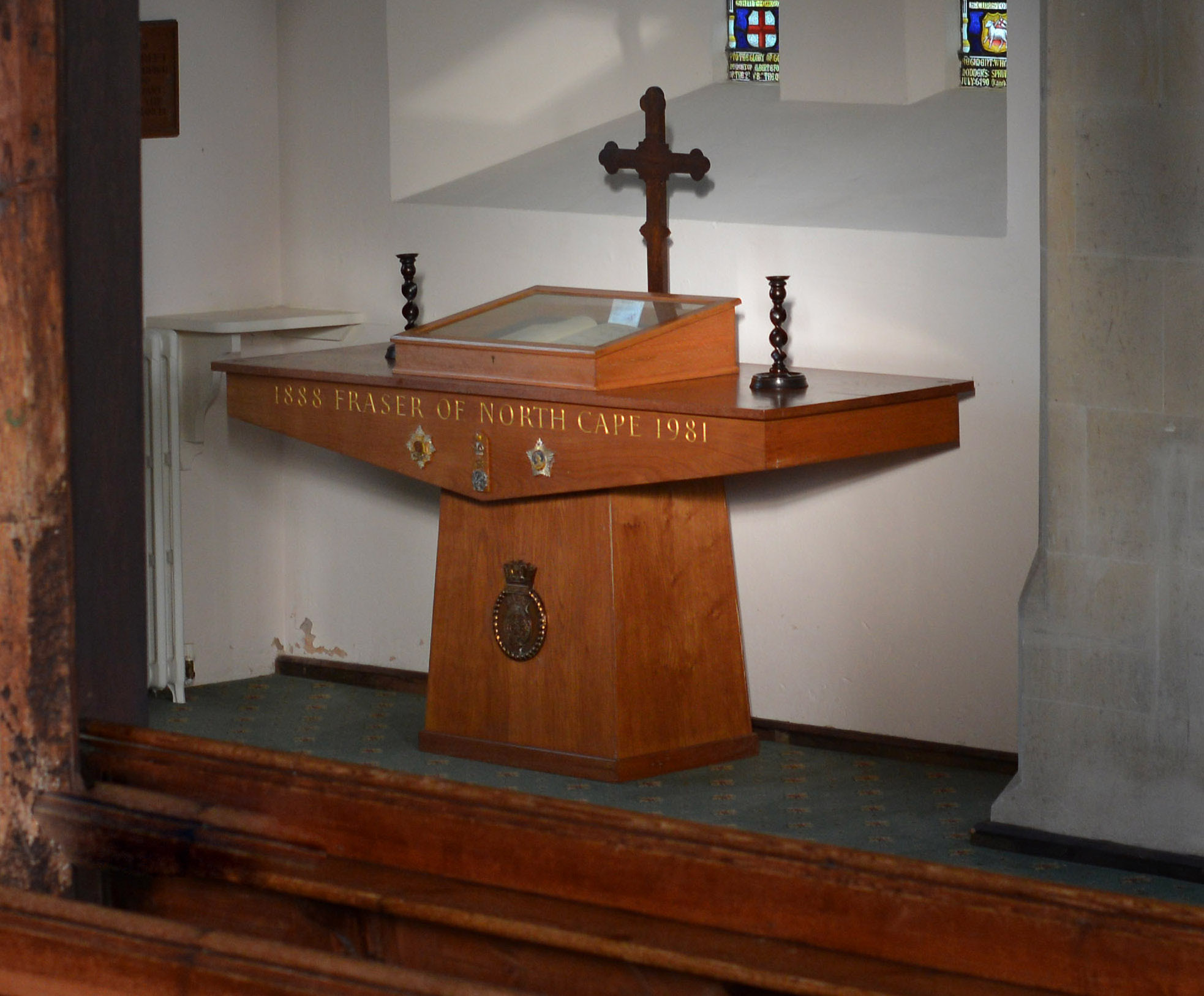 Admiral of the Fleet Bruce Austin Fraser, 1st Baron Fraser of North Cape GCB, KBE